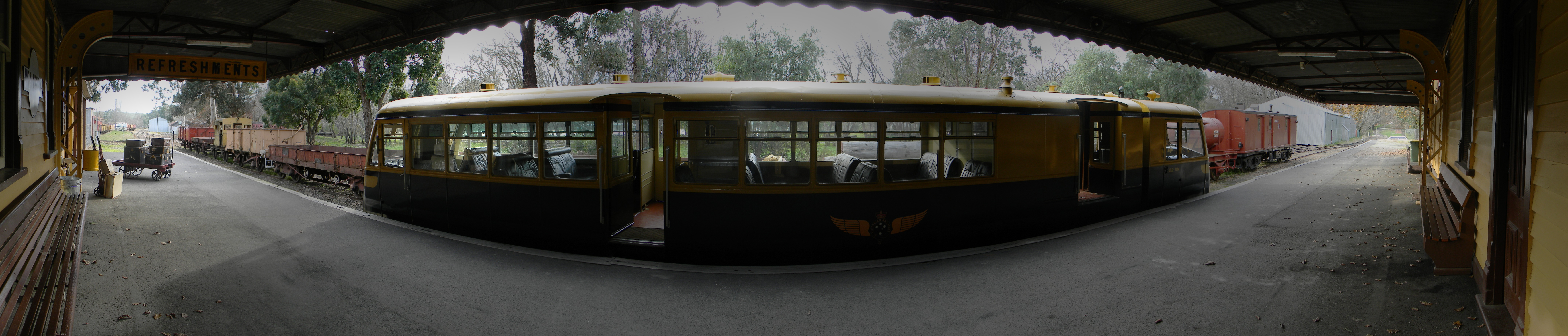 Panoramic shot of Healesville Station platform with the railmotor RM22 sitting in the platform